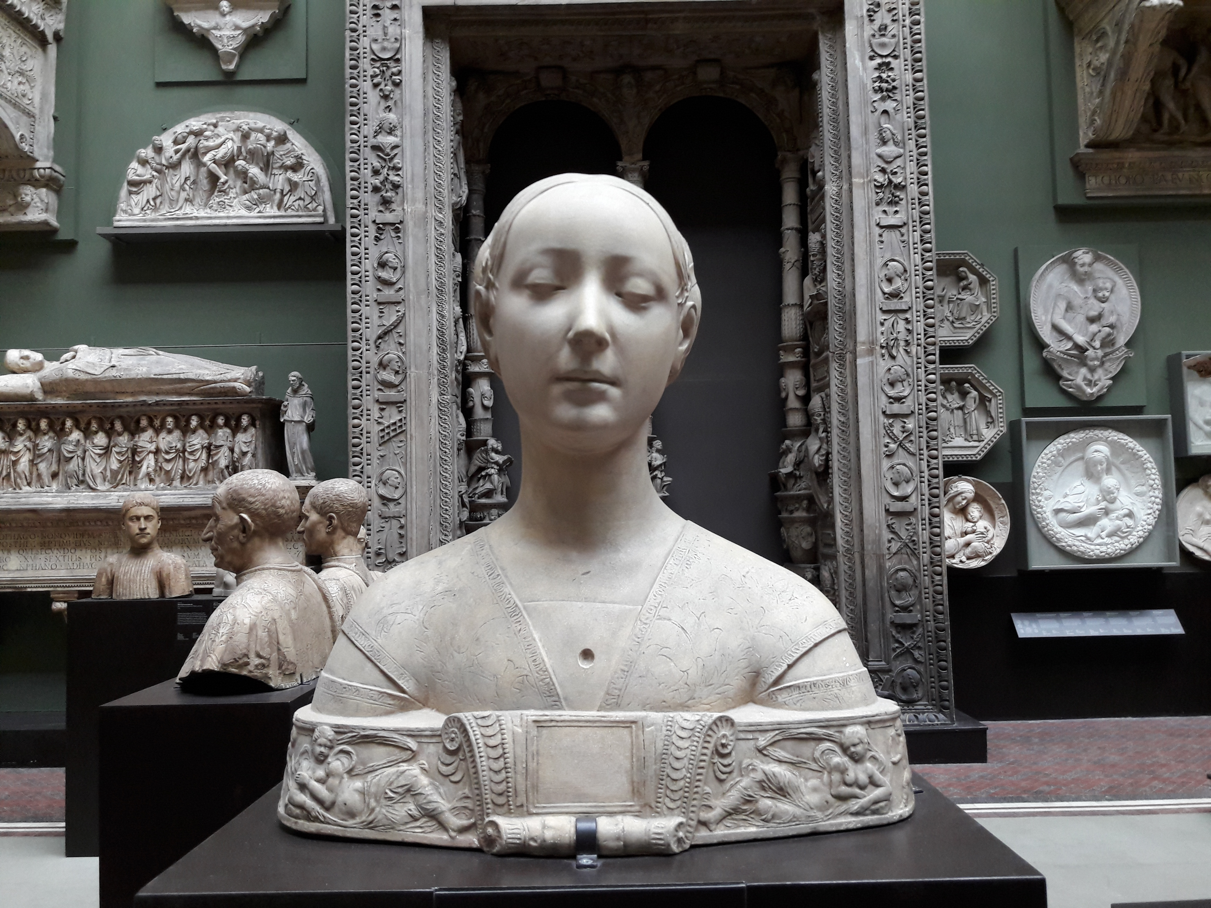 Plaster cast in the Victoria and Albert Museum, London. Made about 1899 from an original in Berlin. The original from Naples and dating from 1472. Possibly a portrait of Ippolita Maria Sforza, consort of the King of Naples. The original was damaged during the Second World War.